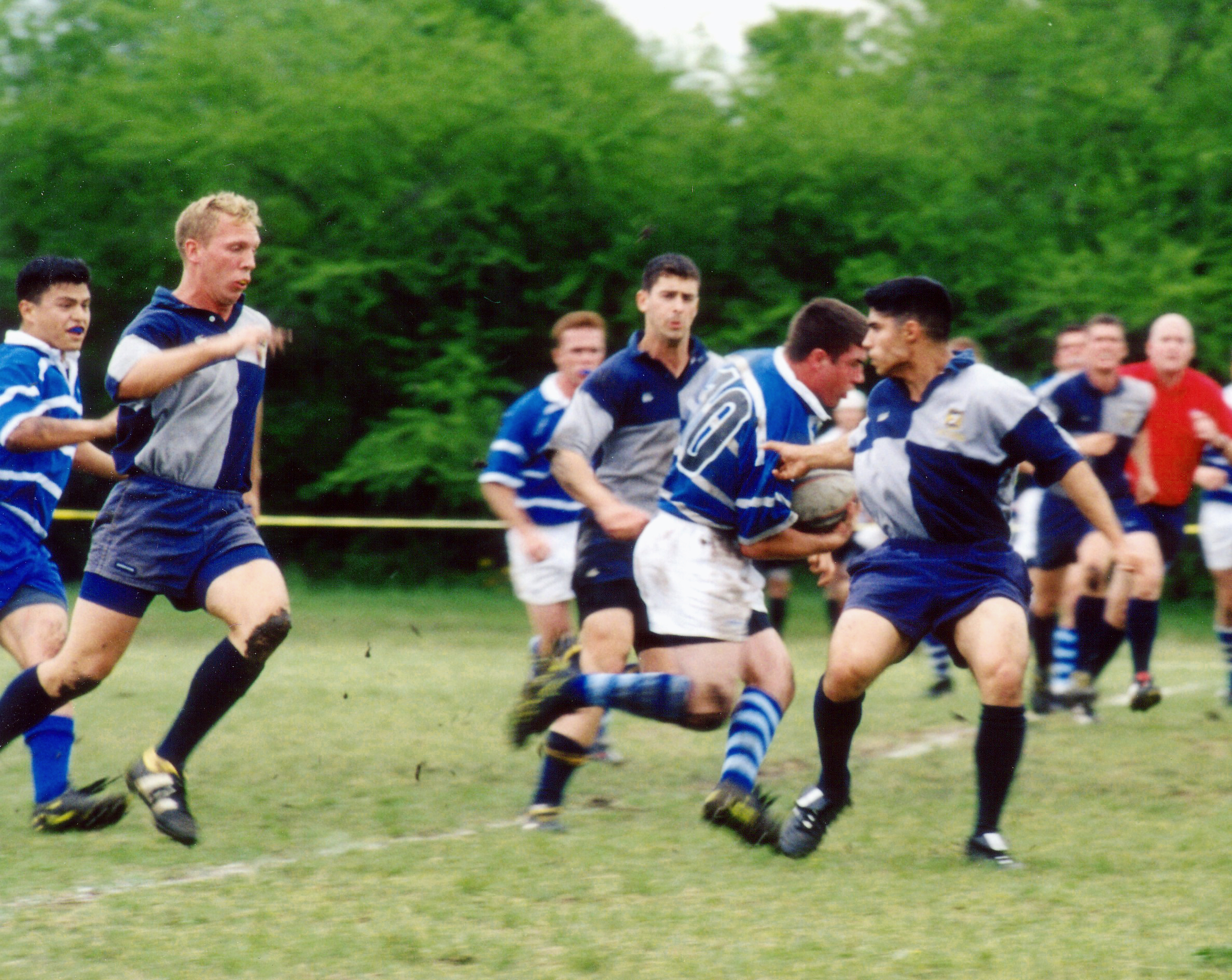 CaptionAir Force edges Navy rugby team SAN ANTONIO -- Rugby players from the U.S. Air Force Academy and the U.S. Naval Academy battle it out during the Alamo City Fiesta Rugby Tournament here April 24. The Air Force won the Commandant's Cup Trophy after successfully kicking two of three field goals in an overtime "shoot-out" to break a 5-5 tie. The Air Force ruggers recaptured the trophy after coming in second place last year; they won the trophy four years in a row before that.